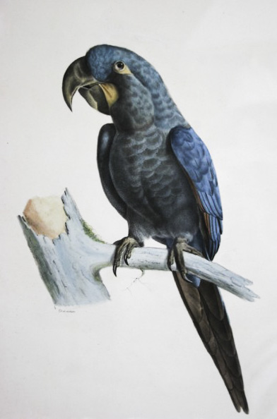 Early illustration of the Glaucous Macaw illustration from Bourjot Saint-Hilaire, 1837-1838.